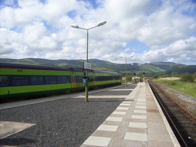 A Machynlleth-bound train at Dovey Junction railway station Original description: "Taken during May 2002, although still current in 2006."